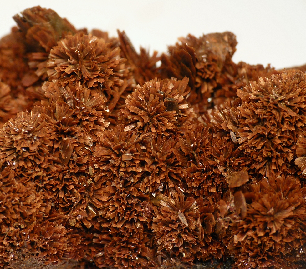 Santabarbaraite Locality: Kerchenskoe deposit, Kerchenskyi (Fe)-ore basin, Kerch peninsula (Kertch peninsula), Crimea peninsula, Crimea Oblast', Ukraine Nice Santabarbaraite xls, pseudomorph after Vivianite. Field of view 3,5 cm